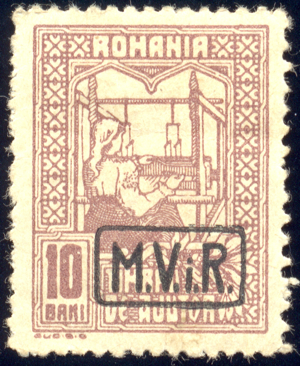 Unused Romania war tax stamp, 1917, German occupation overprint, 10 bani.